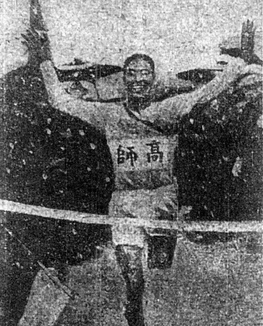 This is the last scene of the 1st Hakone Ekiden. He is MOGI Zensaku, a runner from Tokyo higher nornal school.